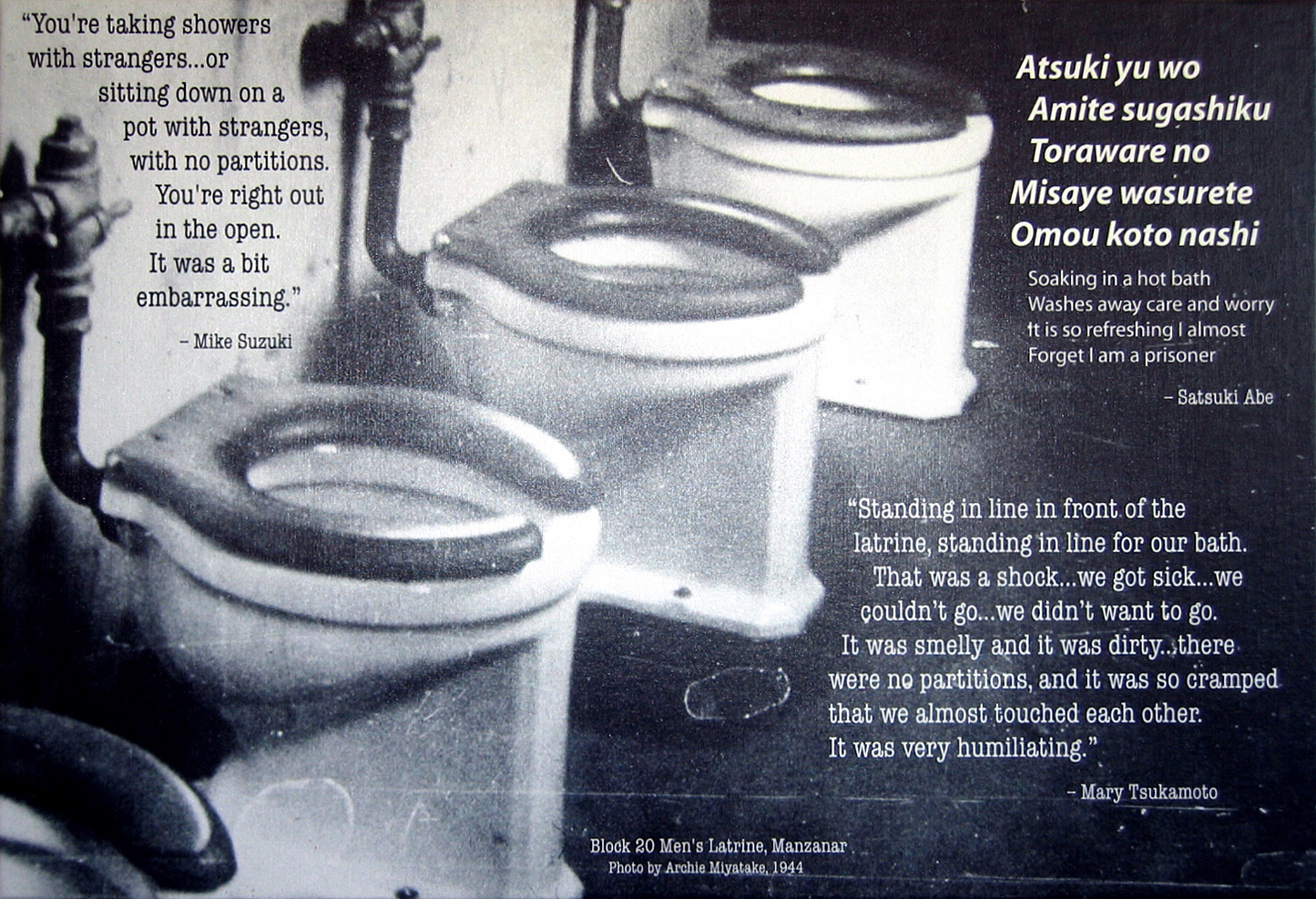 Photo of an "exhibit" photo located in the men's public rest room in the Interpretive Center at the Manzanar National Historic Site. -- Photographer: Matsuda, Gann, 04/23/2004.